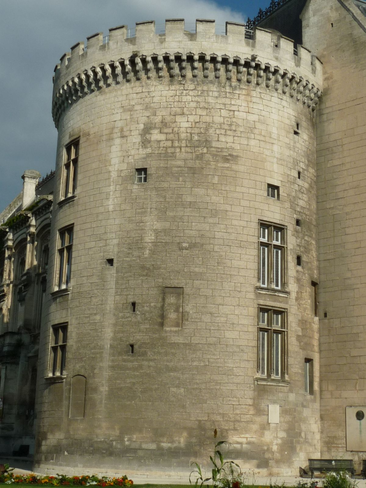 Marguerite of Navarre tower, Valois' tower, City hall of Angoulême, Charente, SW France; place of birth of Marguerite of Navarre in 1492